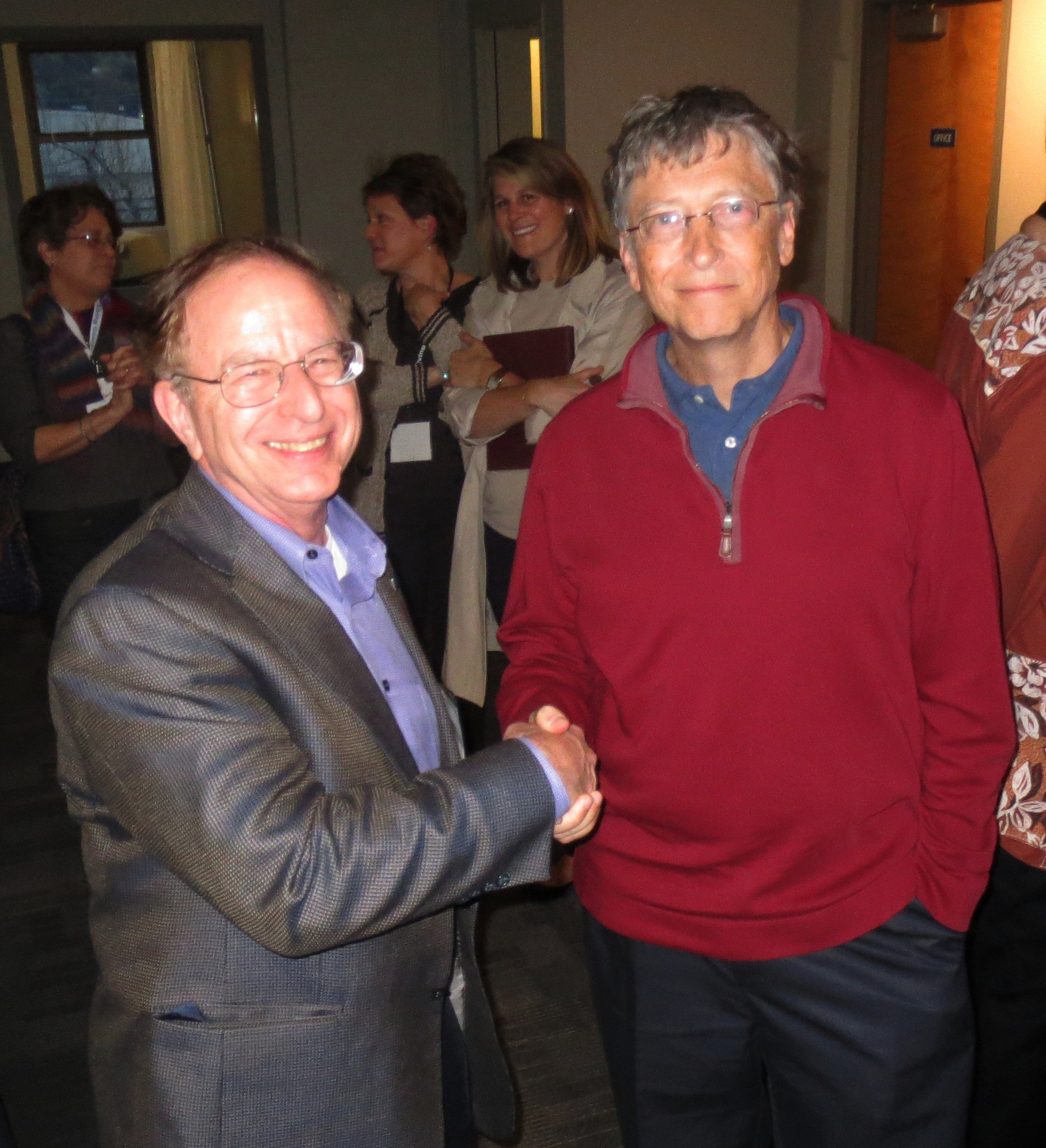 Harry Garland and Bill Gates at event honoring Computer Pioneers held at the Living Computer Museum in Seattle, Washington, April 2013.